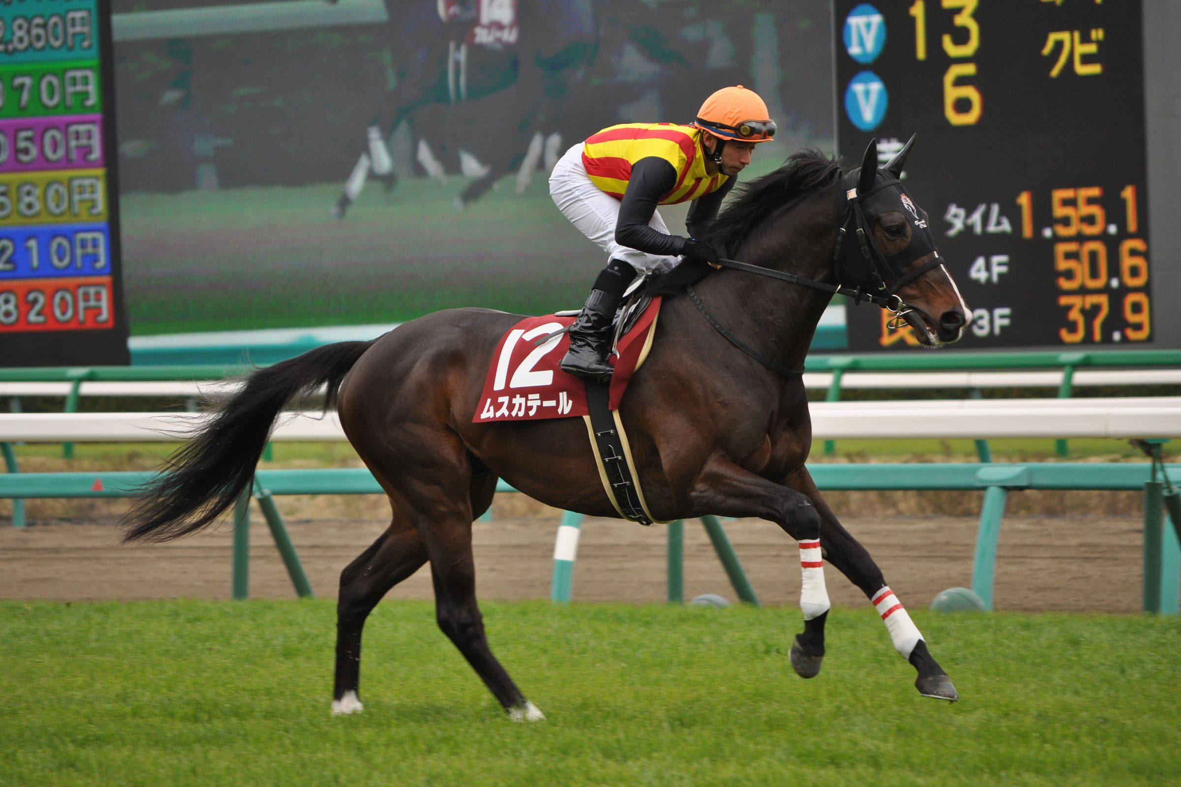 Japanese race horse Mousquetaire at Nakayama racecourse(Funabashi city,Chiba,Japan).